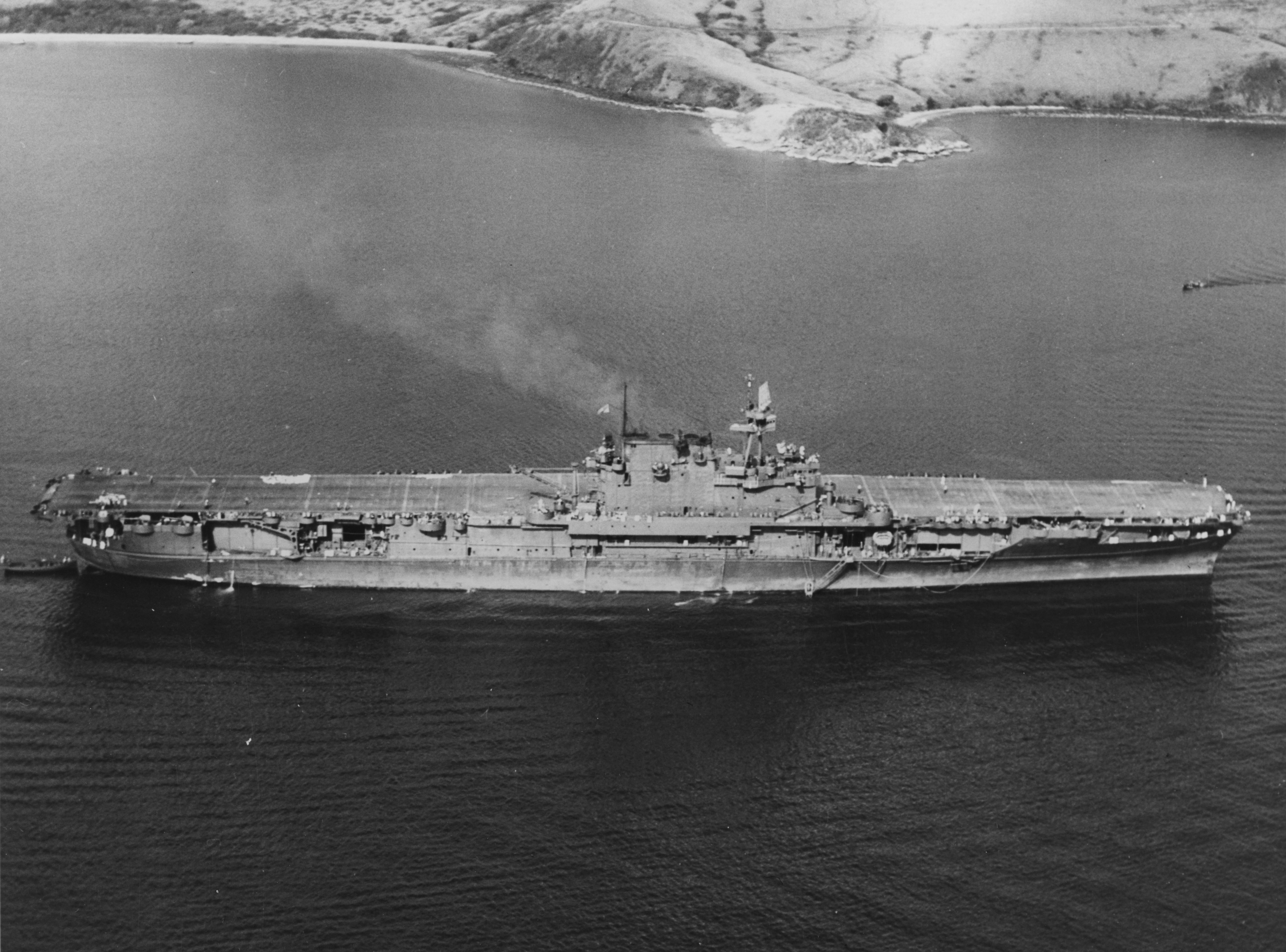 The U.S. Navy aircraft carrier USS Enterprise (CV-6) at Noumea, New Caledonia, 10 November 1942, while the "Big E" was undergoing repairs after the Battle of Santa Cruz. The following day she recovered her air group and departed Noumea to take part in the Naval Battle of Guadalcanal (12–15 November 1942), the final major Japanese attempt to reinforce their garrison on the contested island.